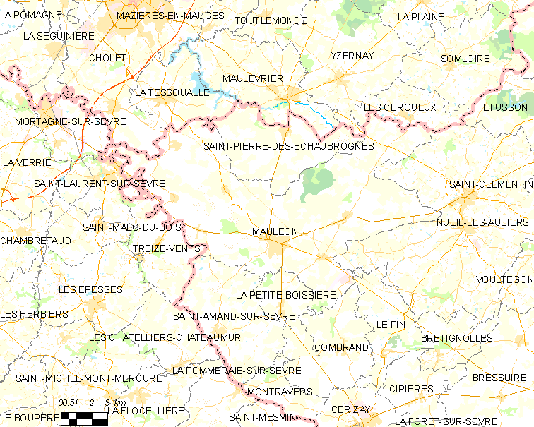 Map of French municipality Mauléon